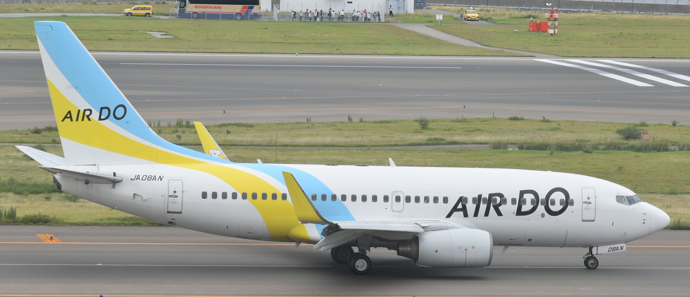 Boeing 737/7 of Hokkaido International Airlines-Air Do at Nagoya Centrair-NGO, Japan,16/09/16.